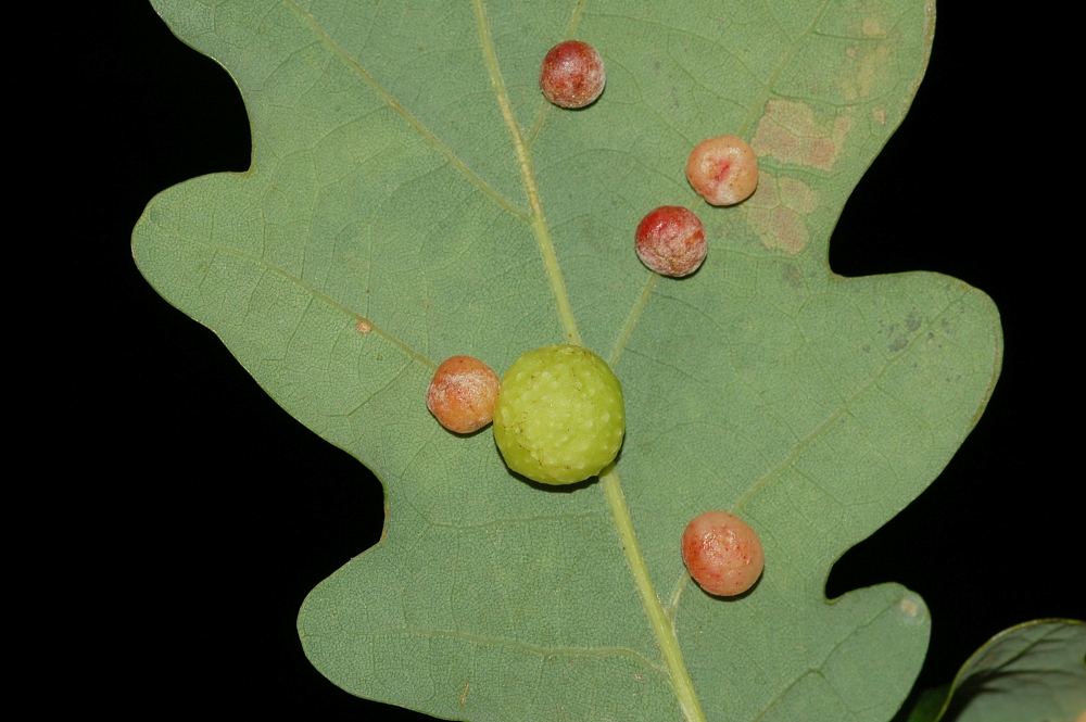 Cynips quercusfolii, Taunus, Germany